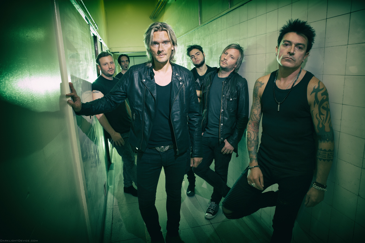 Official VEGA line-up image Released March 2018